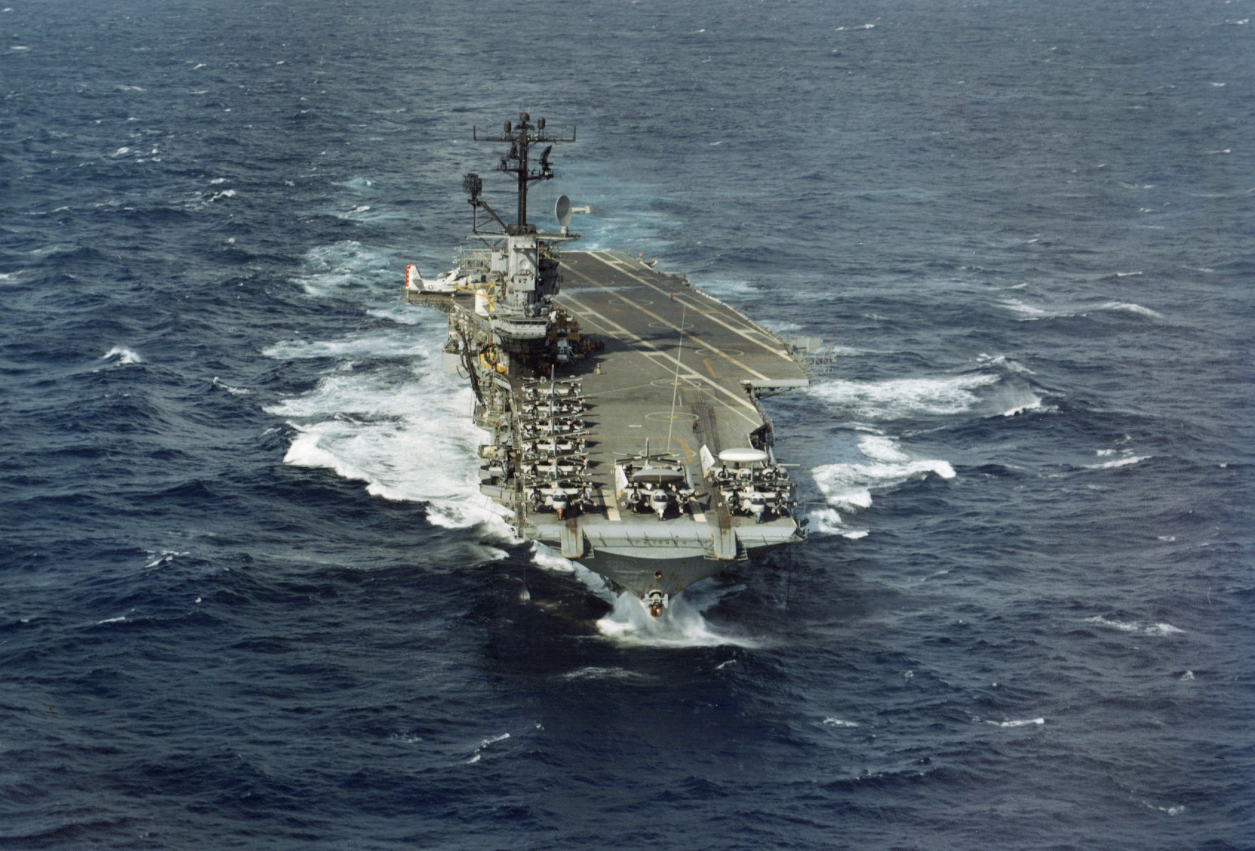 The U.S. aircraft carrier USS Intrepid (CVS-11) underway in the early 1970s with aircraft of Carrier Anti-Submarine Air Group 56 (CVSG-56) on deck. Visible are nine Grumman S-2 Tracker ASW aircraft, two Grumman E-1B Tracer AEW aircraft and a single Sikorsky SH-3D Sea King helicopter.